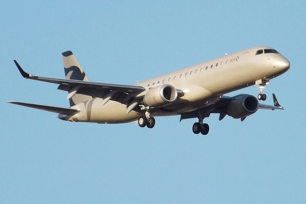 A6-AJH Embraer ERJ-190 Lineage landing at Glasgow